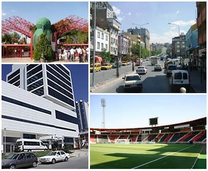 Collage of Gaziantep